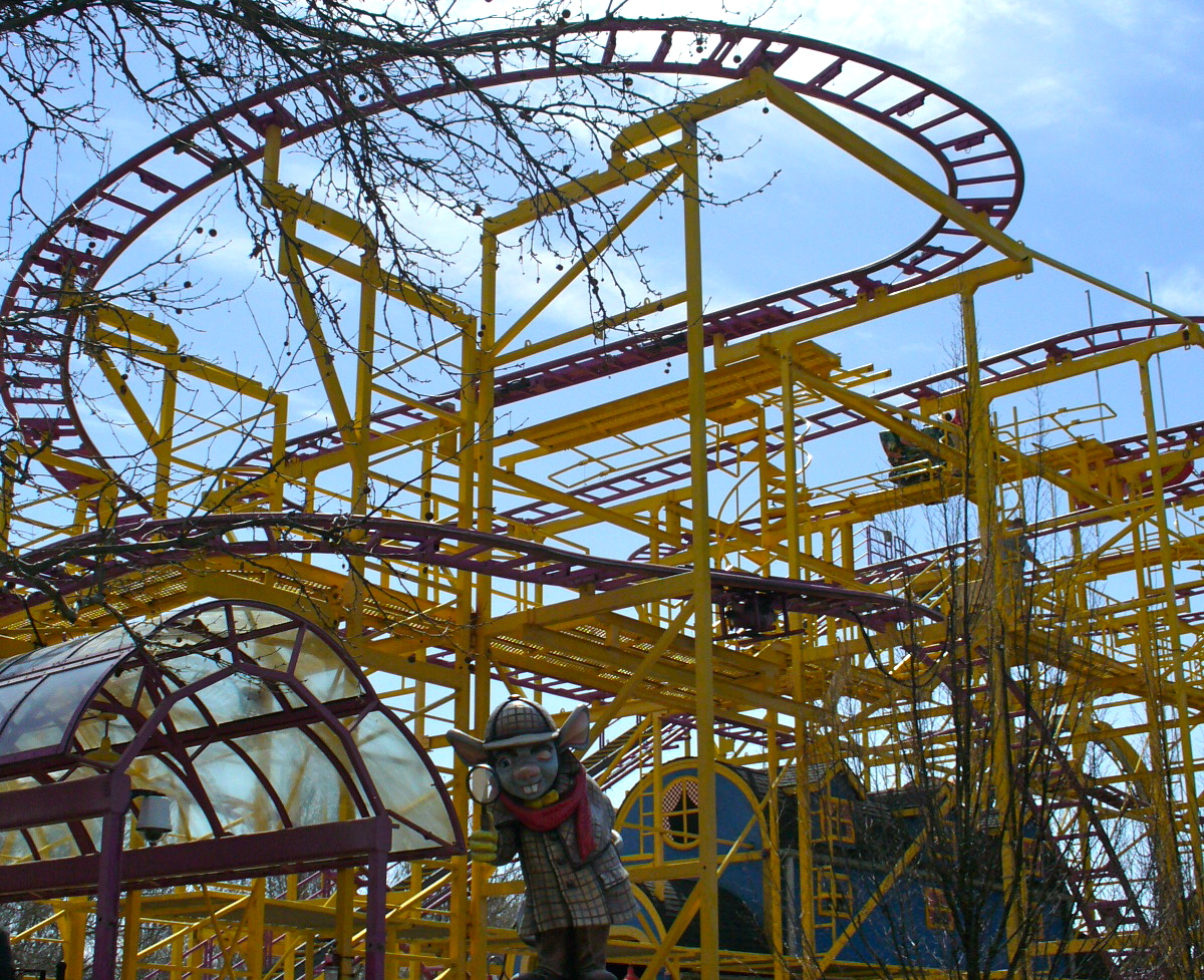 Wild Mouse before being repainted.